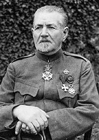 Lieutenant-general Nikolai Aleksandrovich Brzhozovskiy